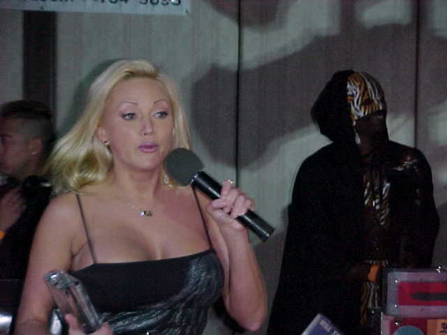 Stacy Valentine accepting her F.O.X.E. Female Fan Favorite Award on October 31, 1999